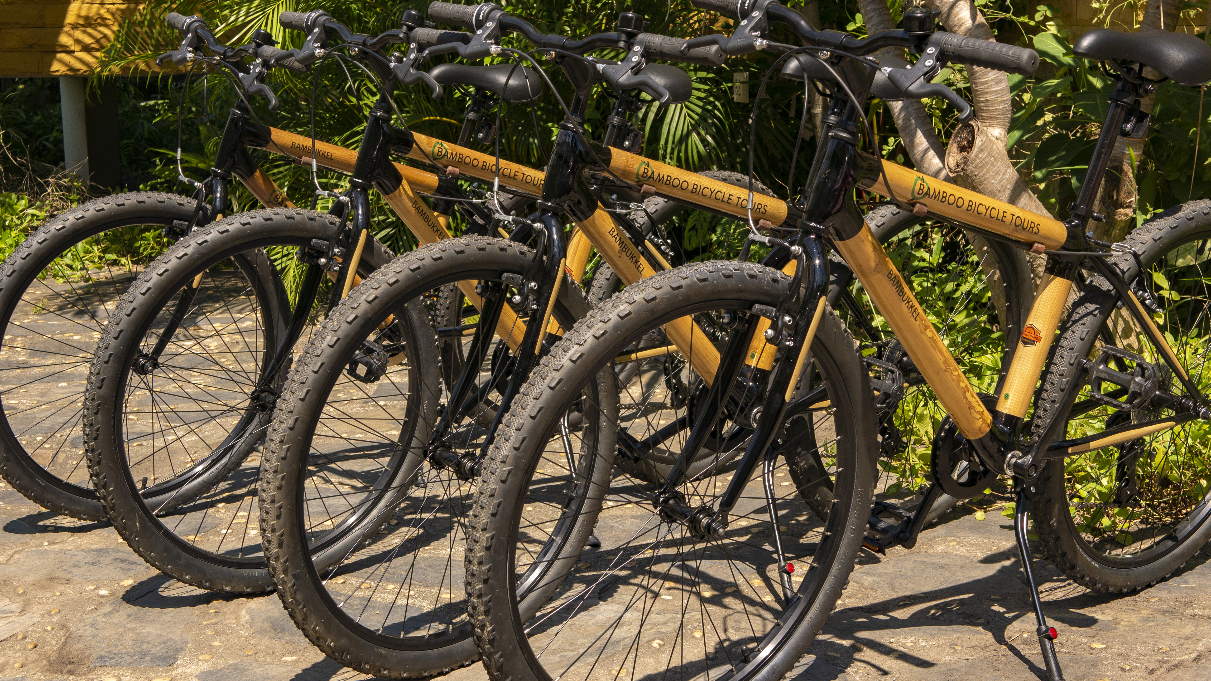 Bikes used for tourist cycling activities in Thailand and Vietnam.